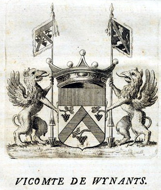 Coat of arms of the (De) Wynants family of the Southern Netherlands.